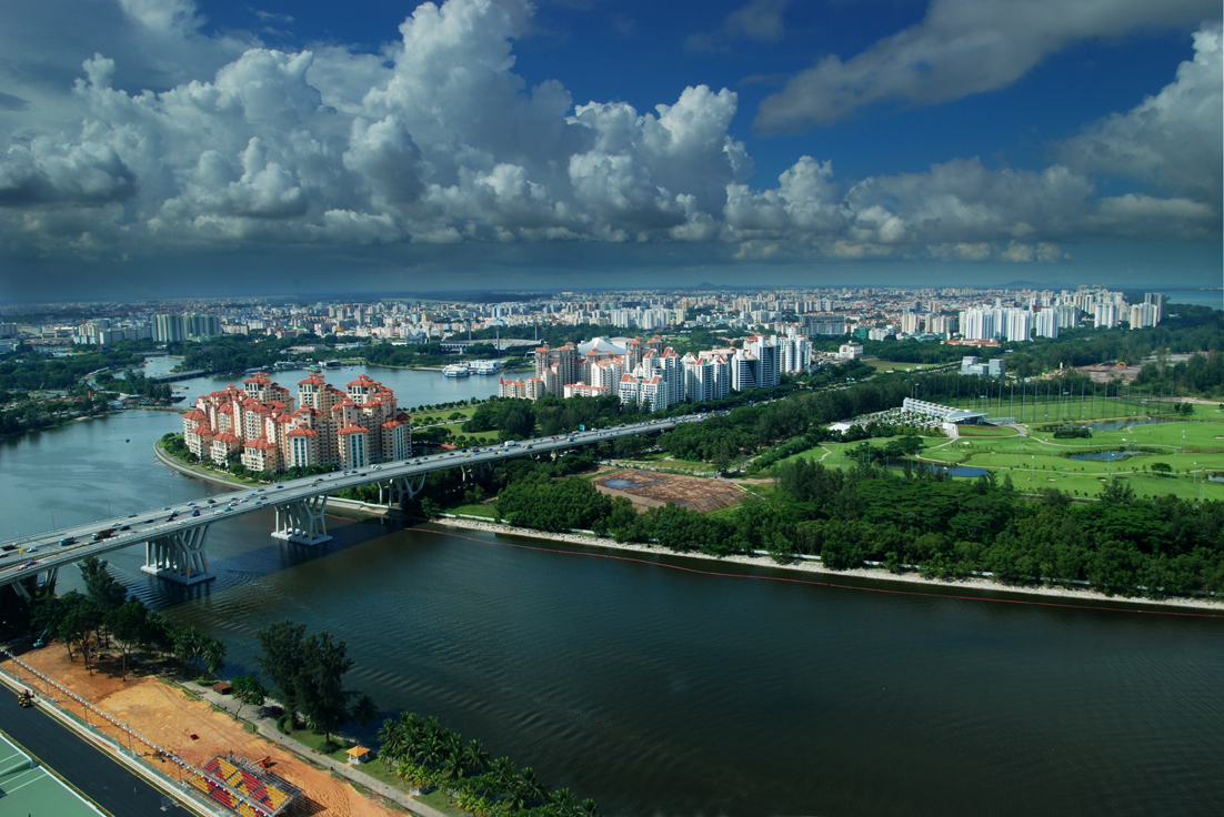 Aerial view of the Kallang river. My first ride...